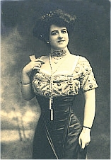 Publicity photograph of Zélie de Lussan circa 1890. public domain. From site